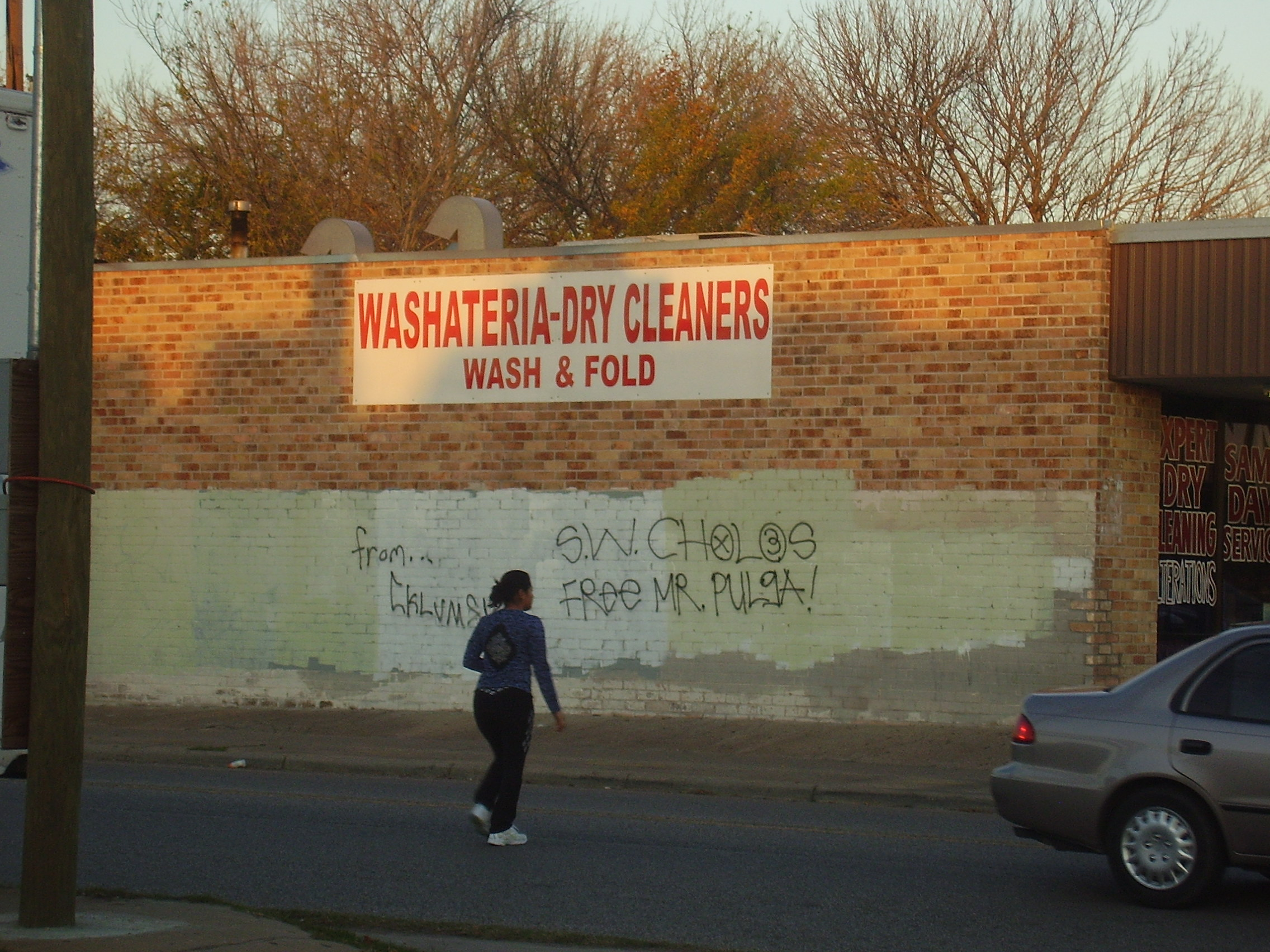 Gulfton shopping center with Southwest Cholos graffiti - Gulfton @ Rampart